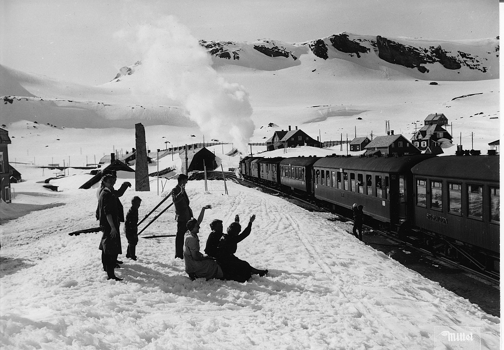 Photo from National Archives of Norway's Flickr-Album "Reiser i Norge" ("Traveling in Norway"). All images are marked with "No known copyright restrictions".